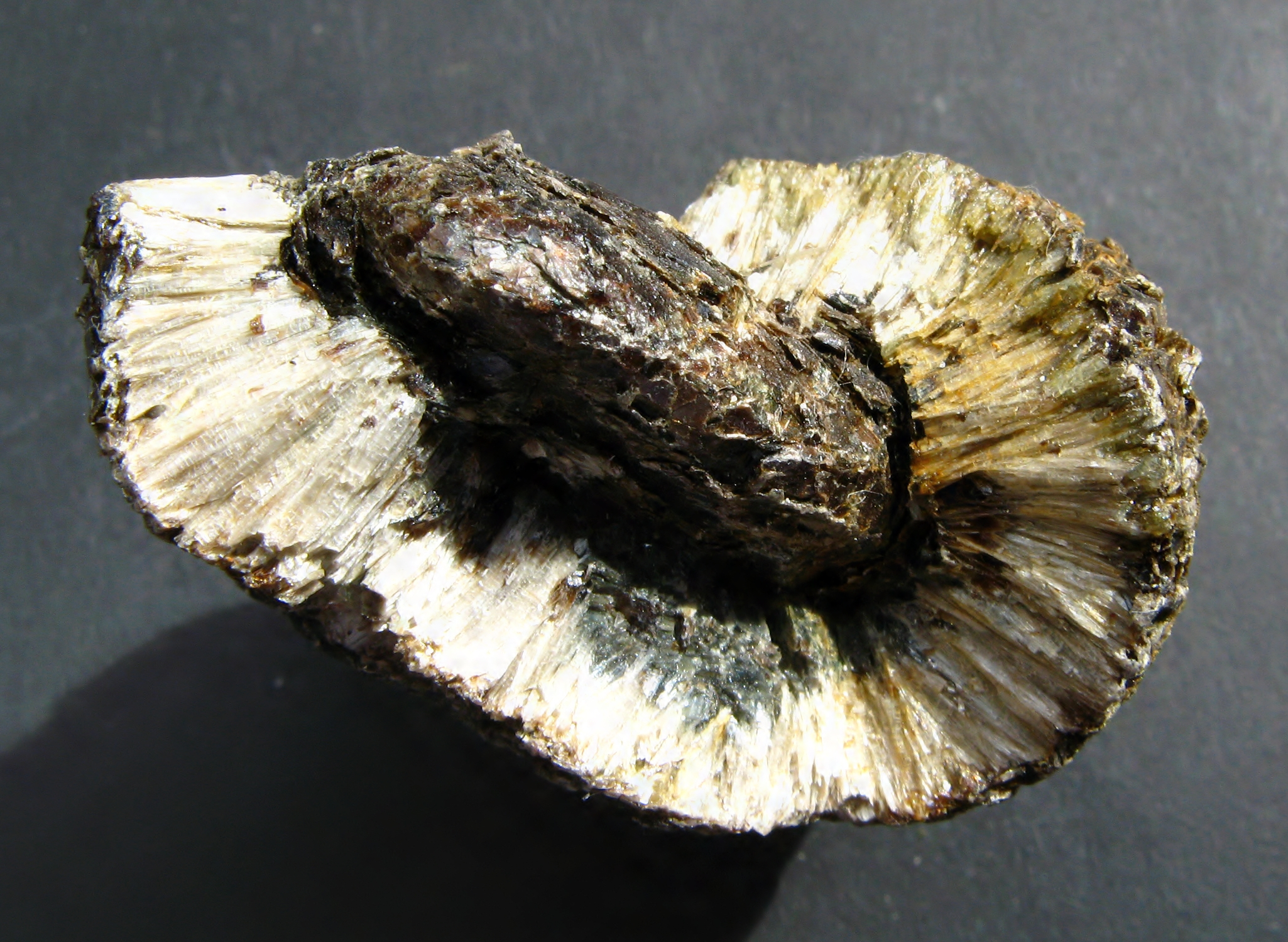 Hermanover ball - Locality: Hermanov, Czech Republic